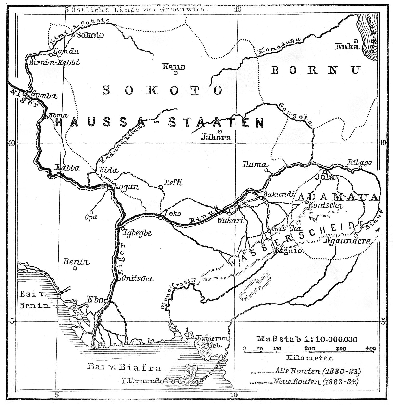 caption: "Uebersichtskarte der Reisen von Ed. Robert Flegel in Haussa und Adamaua."